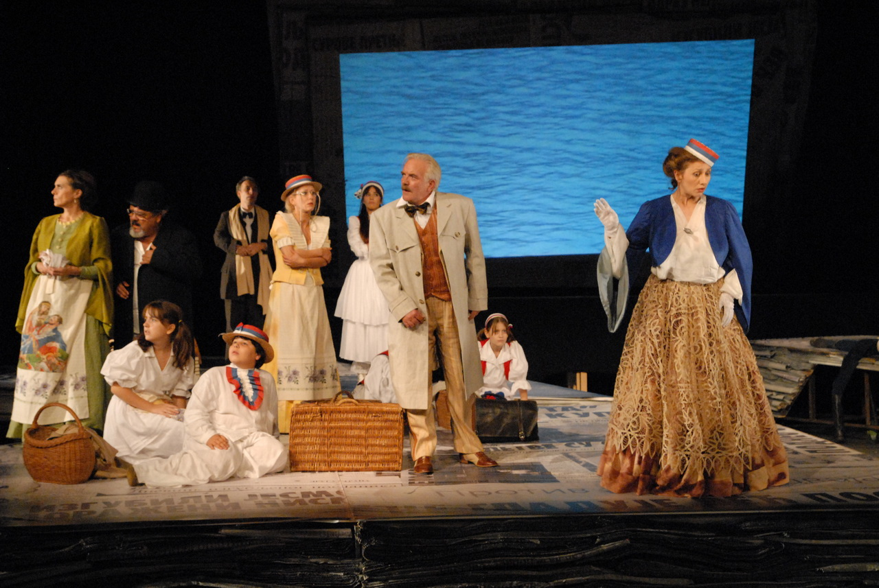 "Was There the Prince's Dinner" written and directed by Vida Ognjenović, Drama of the SNT, Novi Sad, 2008/09; Gordana Đurđević Dimić, Miodrag Petrović Srpski (latinica): "Je li bilo kneževe večere", napisala i režirala Vida Ognjenović; Drama SNP-а, 2008/09; Gordana Đurđević Dimić, Miodrag Petrović Српски (ћирилица): "Је ли било кнежеве вечере", написала и режирала Вида Огњеновић; Драма СНП-а, 2008/09; Гордана Ђурђевић Димић, Миодраг Петровић